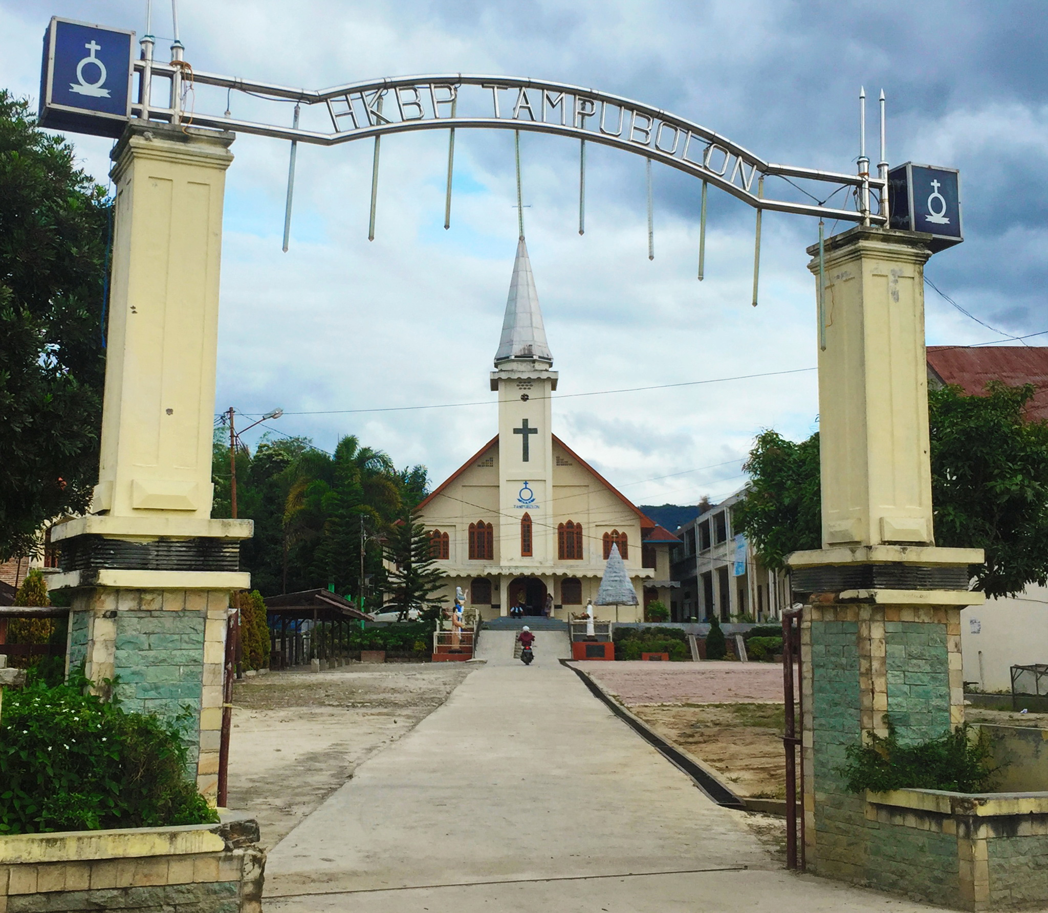 HKBP Tampubolon, Church in Balige, Toba Samosir